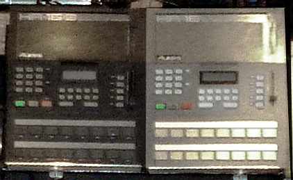 Alesis HR-16 & HR-16B Shawn Rudiman's Studio, Pittsburgh, PA